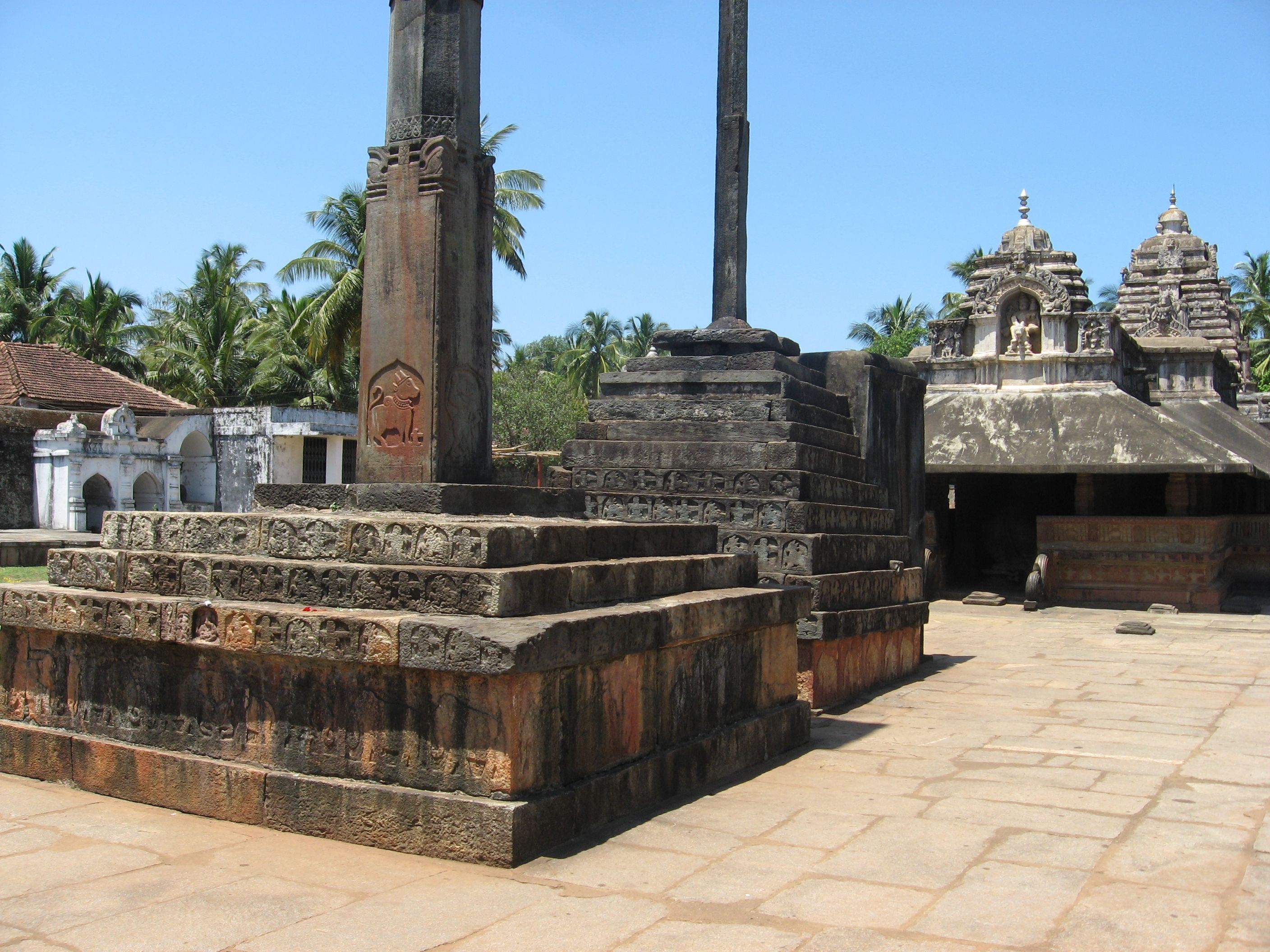 Banvasi Temple